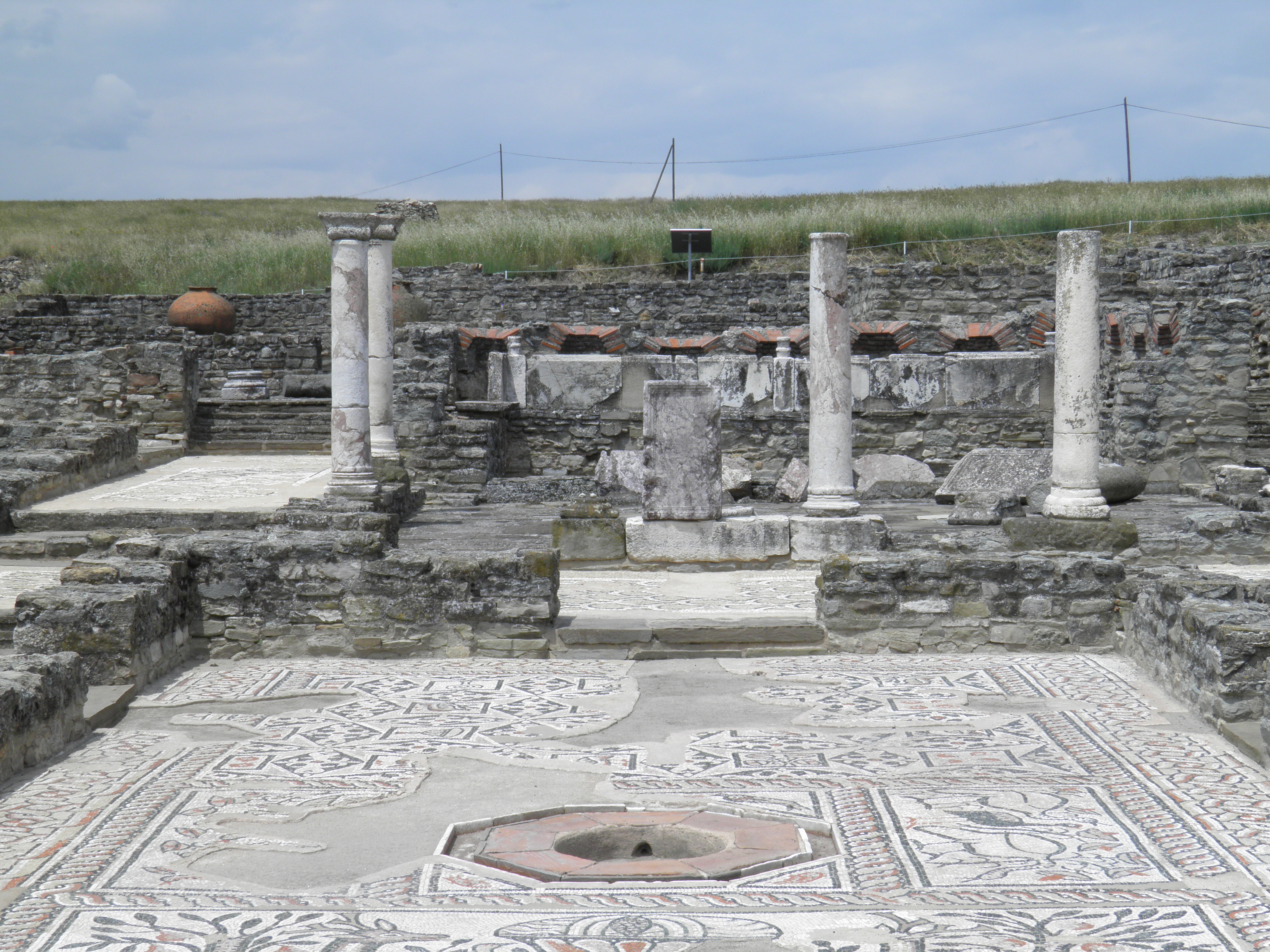 Stobi, Macedonia